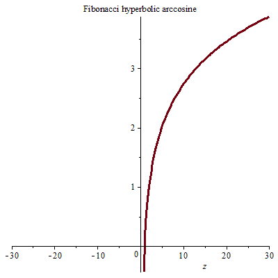 Fibonacci hyperbolic arccosine 2D